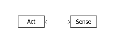 I´ve made it on photoshop. public domain license.